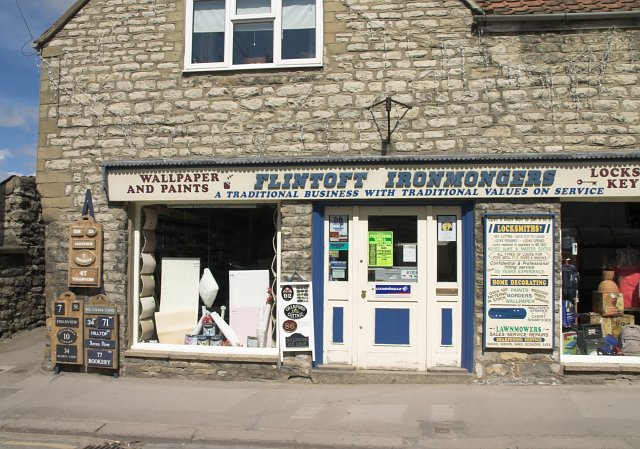 Ironmongers shop in Pickering. Flintoft's Ironmongers, a small shop selling everything you could possibly want!